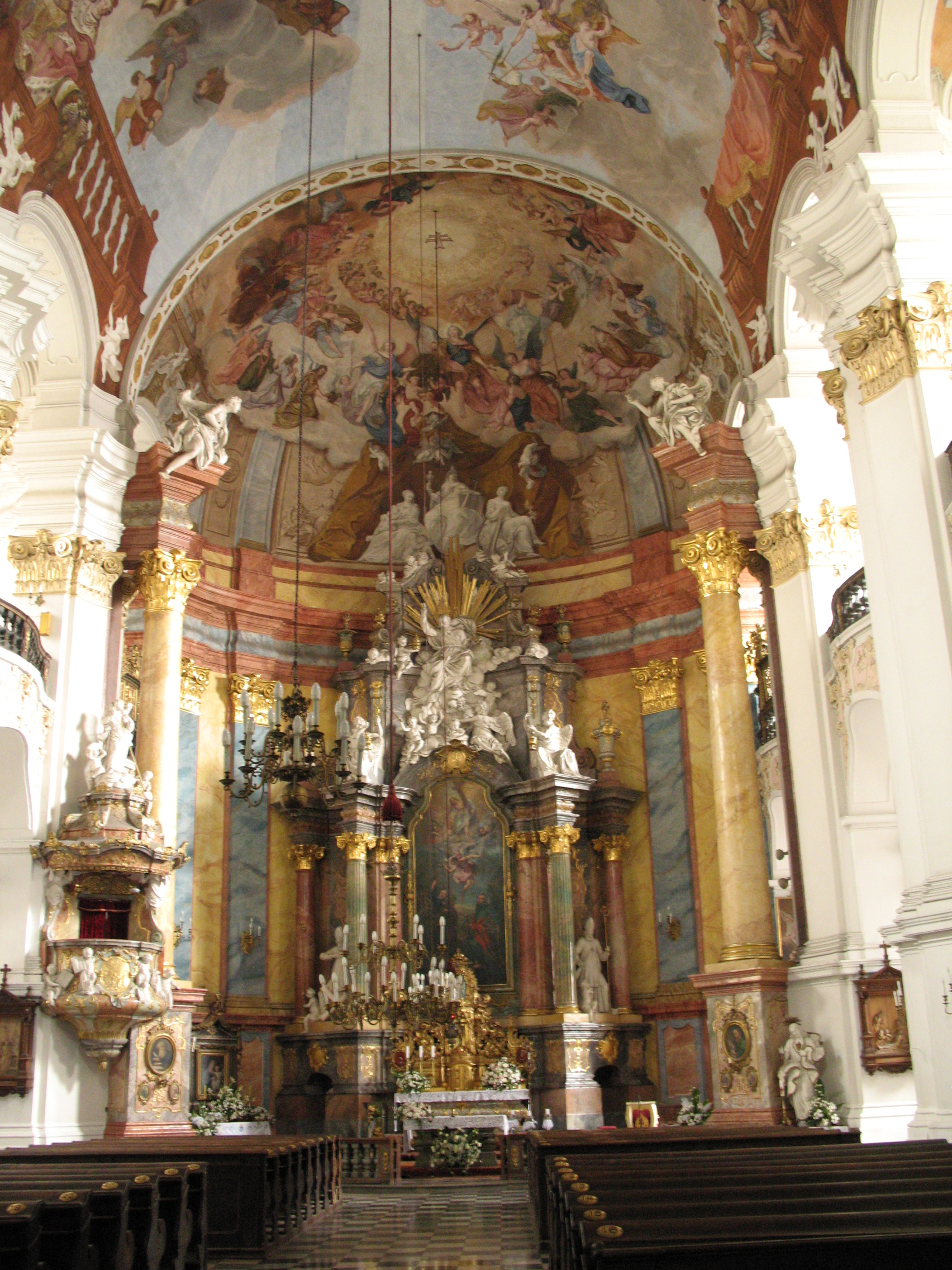 Saints Peter and Paul Church in Nysa, Lower Silesia, Poland